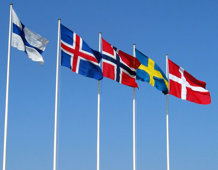 Flags of the Nordic countries - from left: Finland, Iceland, Norway, Sweden and Denmark. Taken outside Bella Center, Copenhagen.